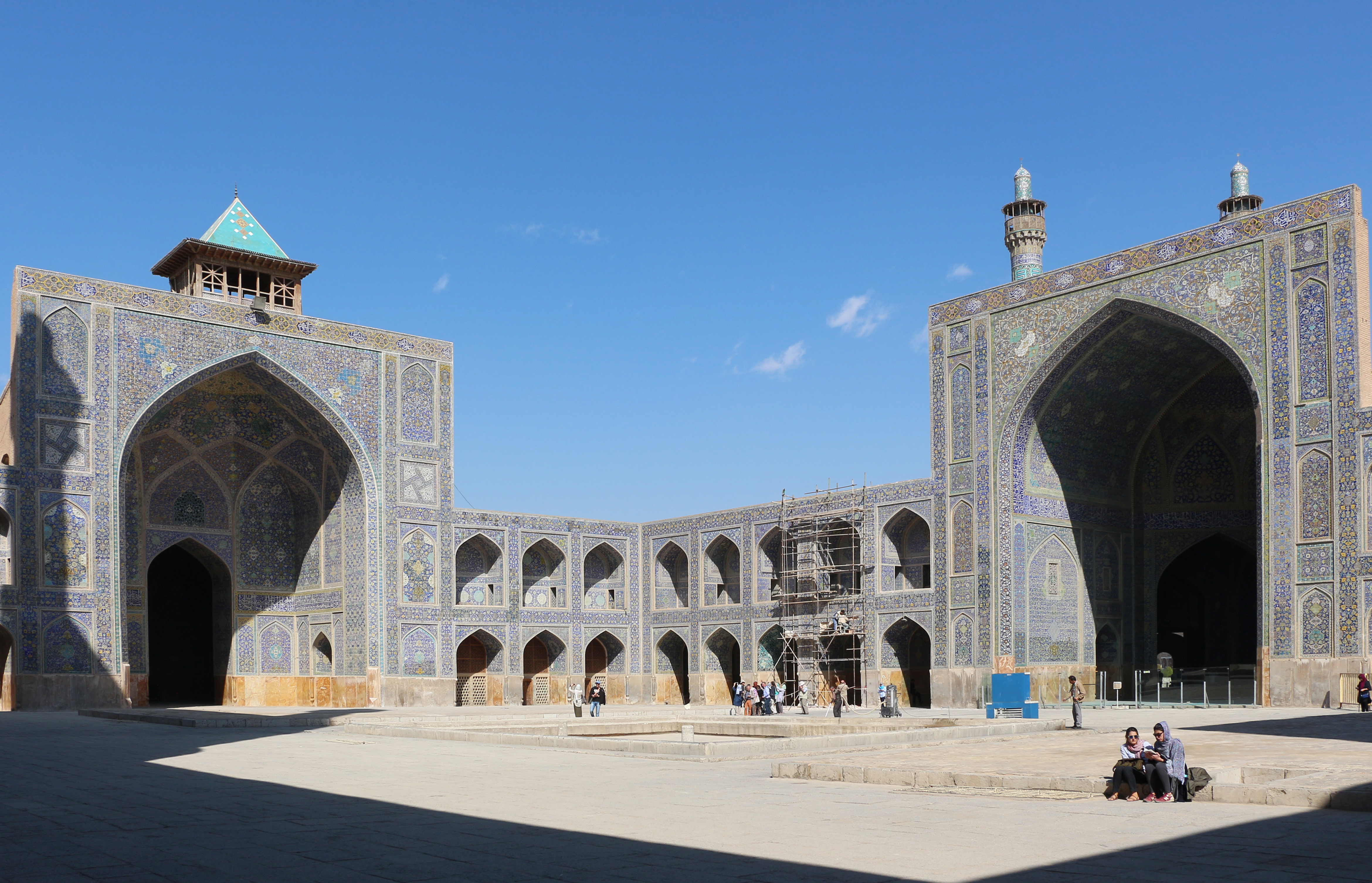 Shah Mosque, Isfahan, Iran